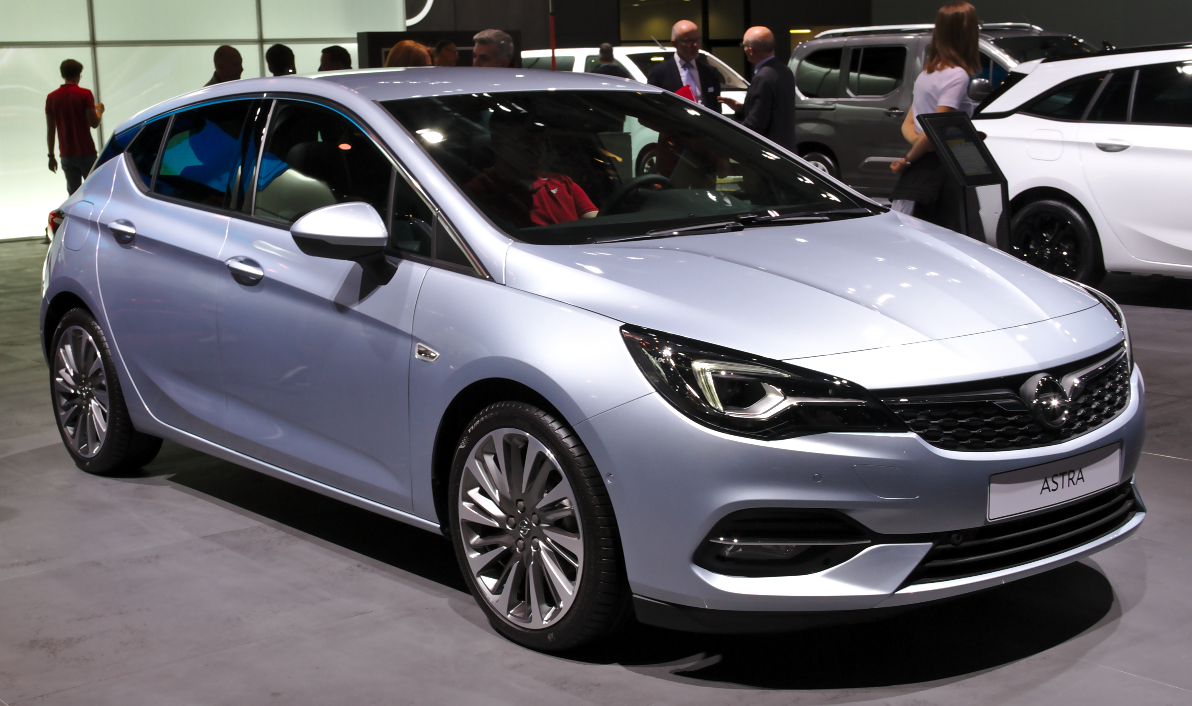 Opel_Astra_K at IAA 2019